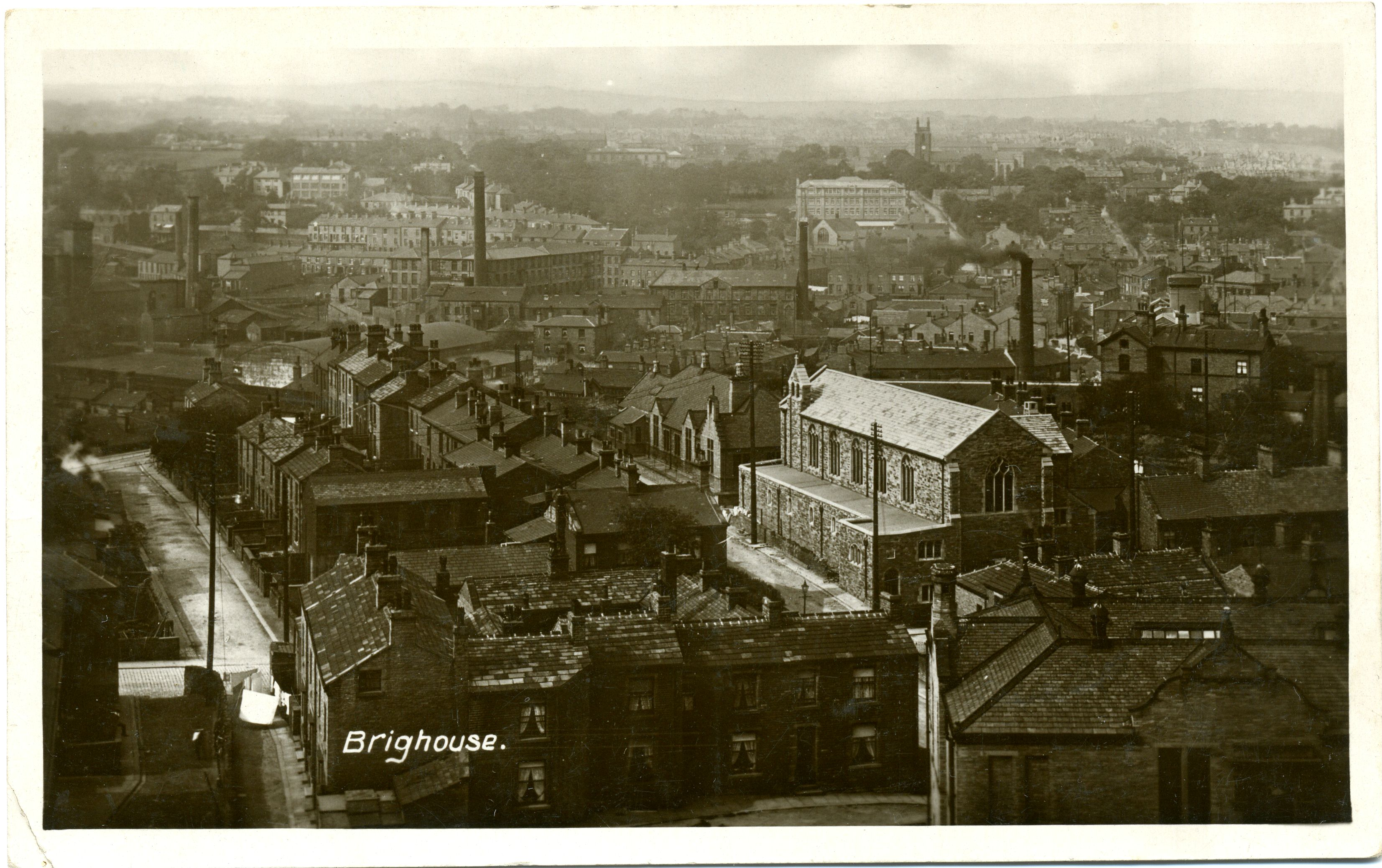 Brighouse between 1914 and 1920. The architect William Swinden Barber (1832-1908) lived and worked in this area. His large Church of St Jude (1888) with four large pinnacles can be seen in the distance. In the foreground is St John the Divine, Rastrick, completed 1914.